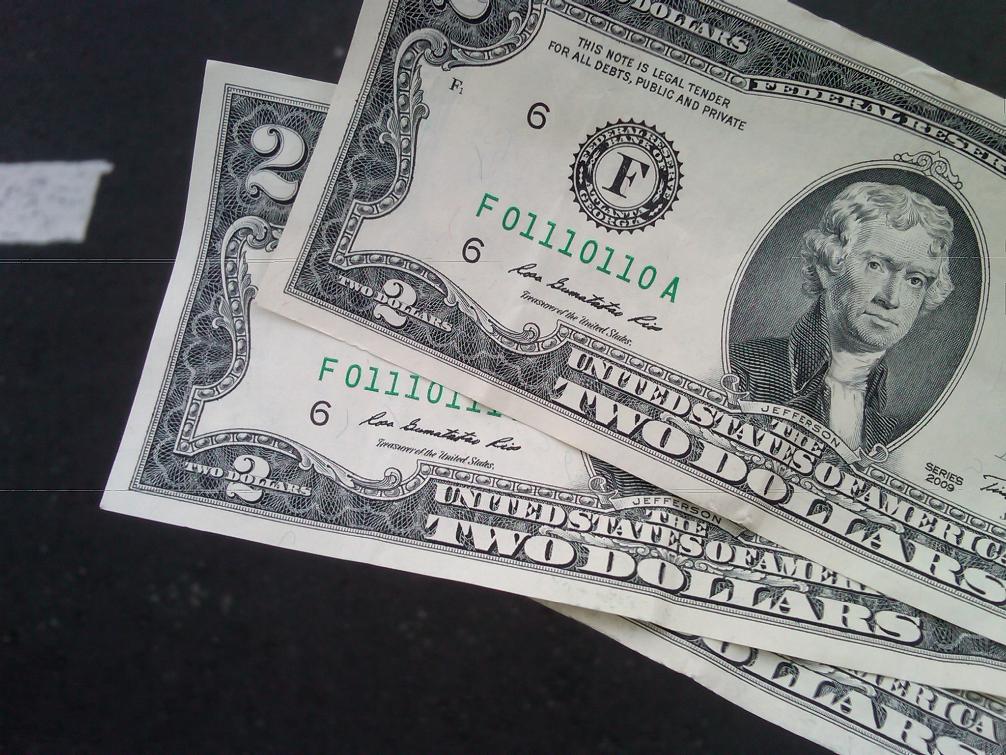 Three consecutively numbered two-dollar bills. Photo by Anthony M. Inswasty